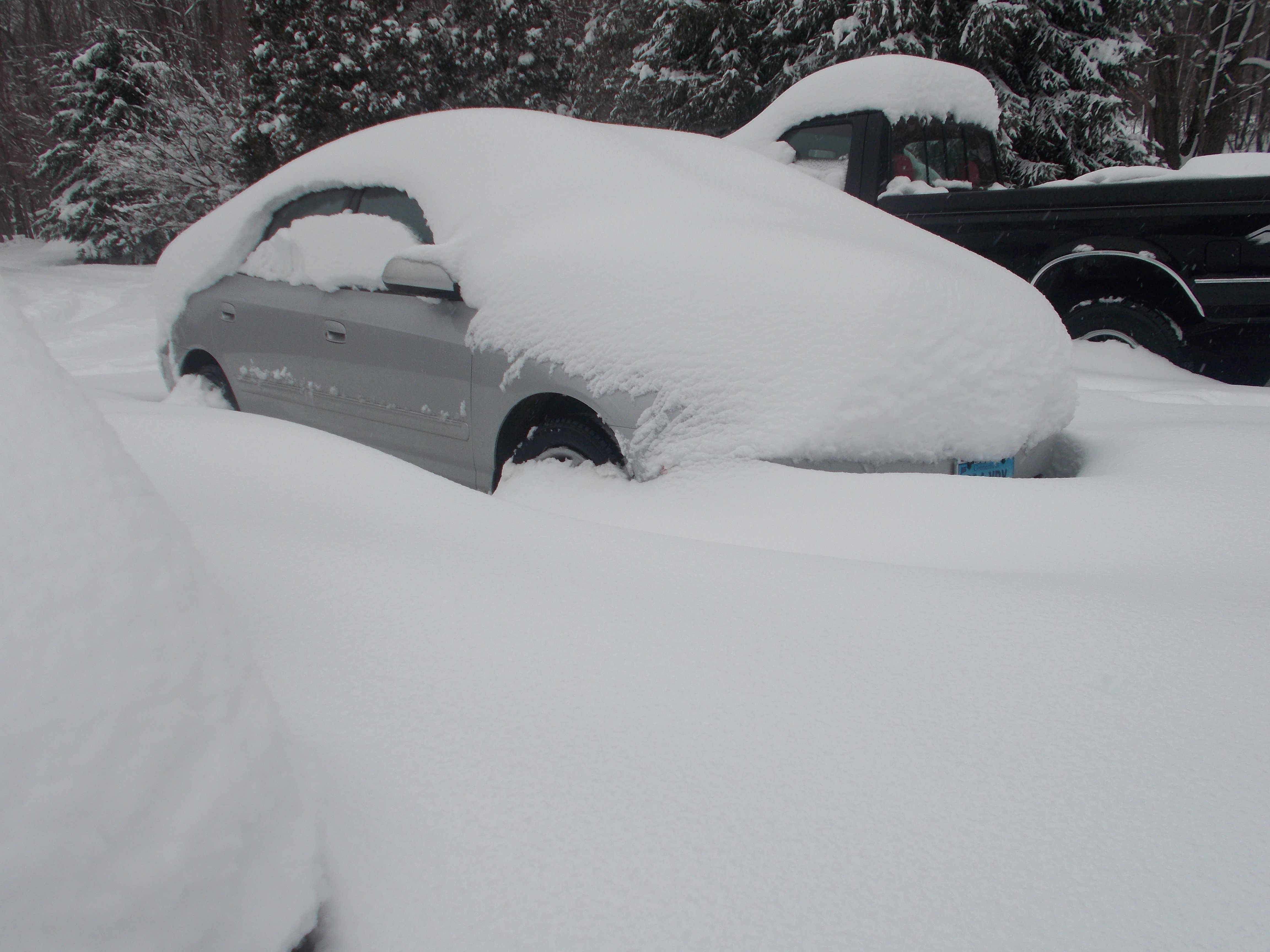 Snow from the March 2013 nor'easter in Ashford, CT